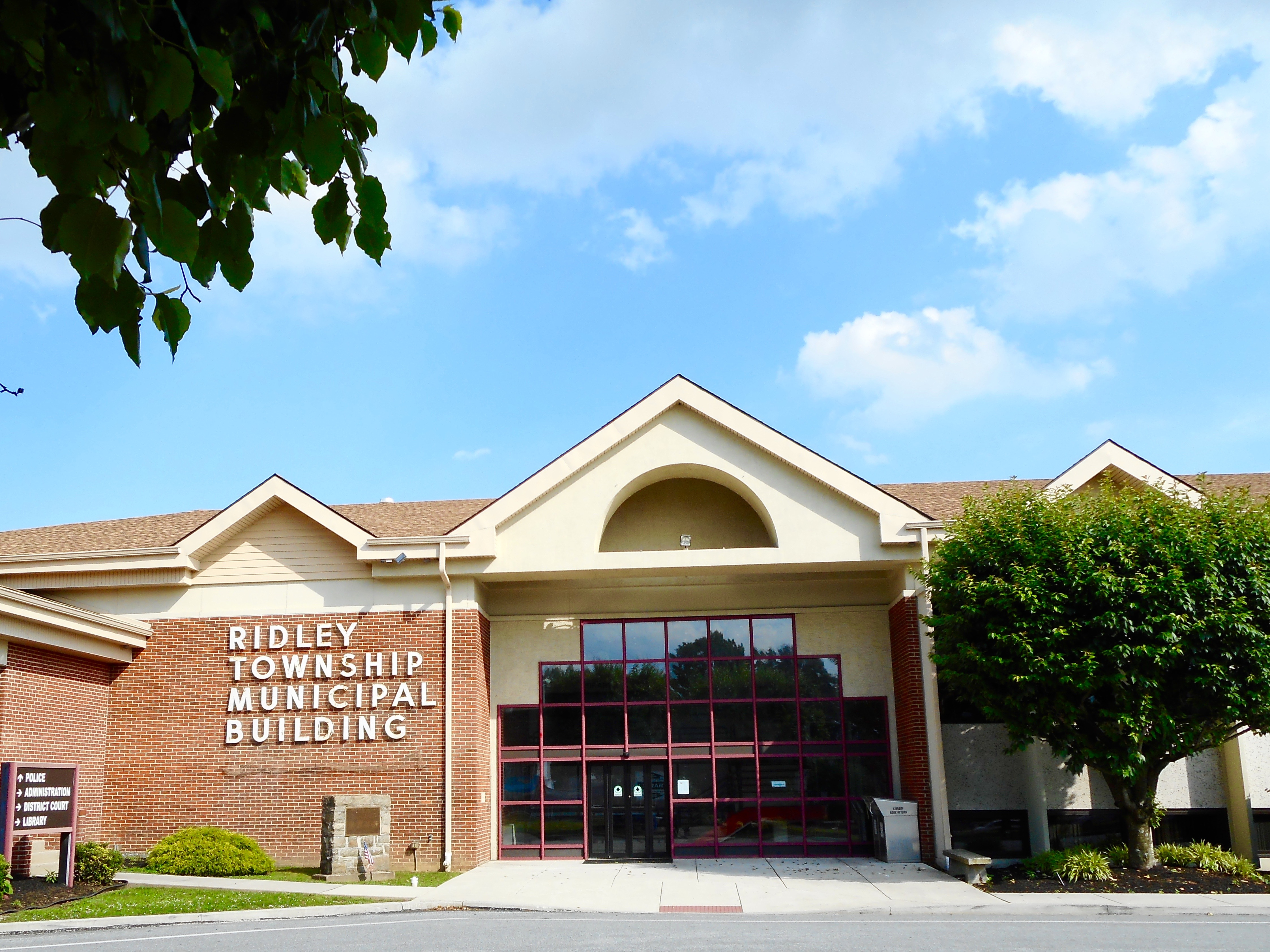 Ridley Township Municipal Building and Public Library in Delaware County, Pennsylvania